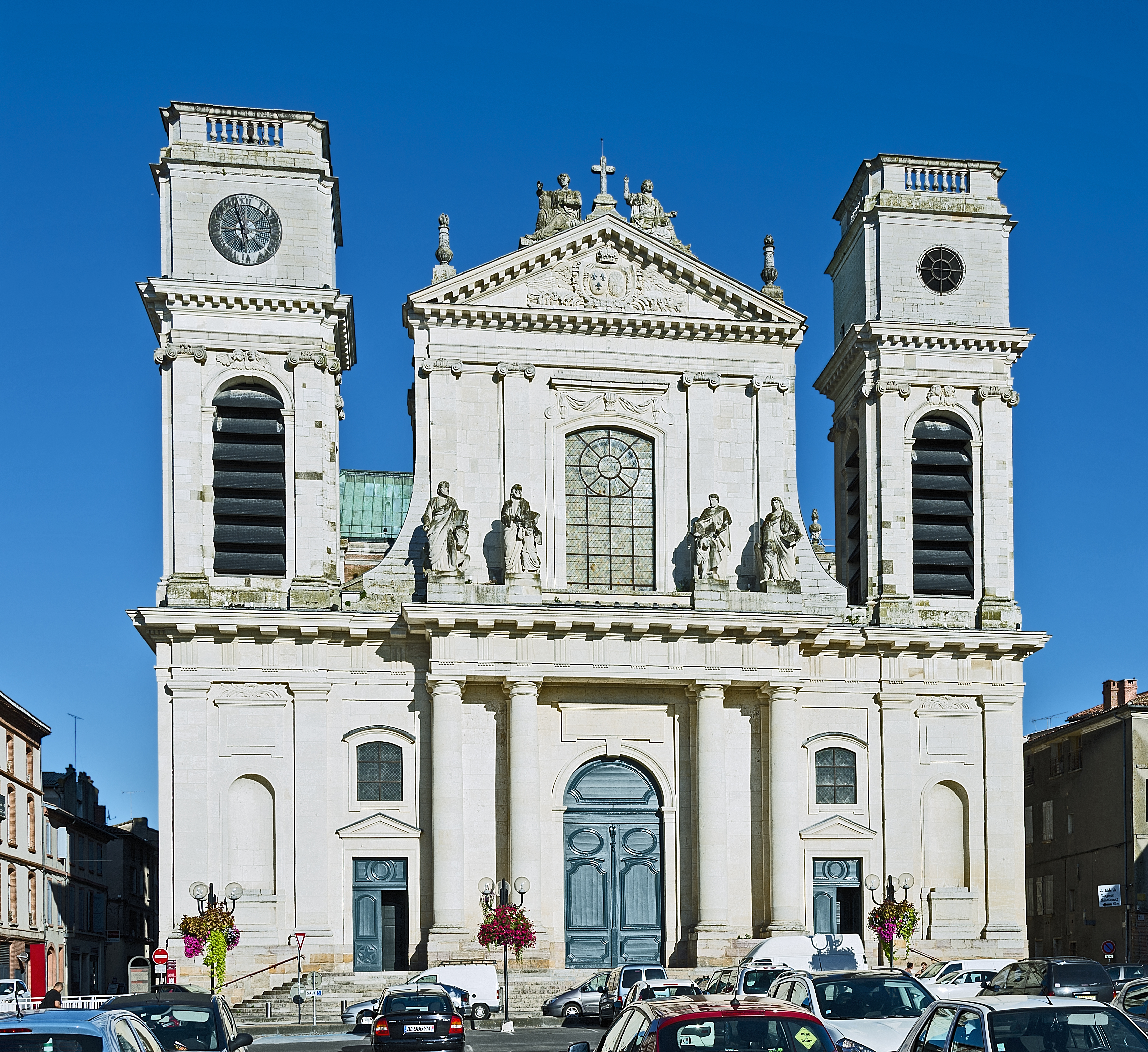 Montauban Cathedral, Tarn et Garonne, France. Facade.